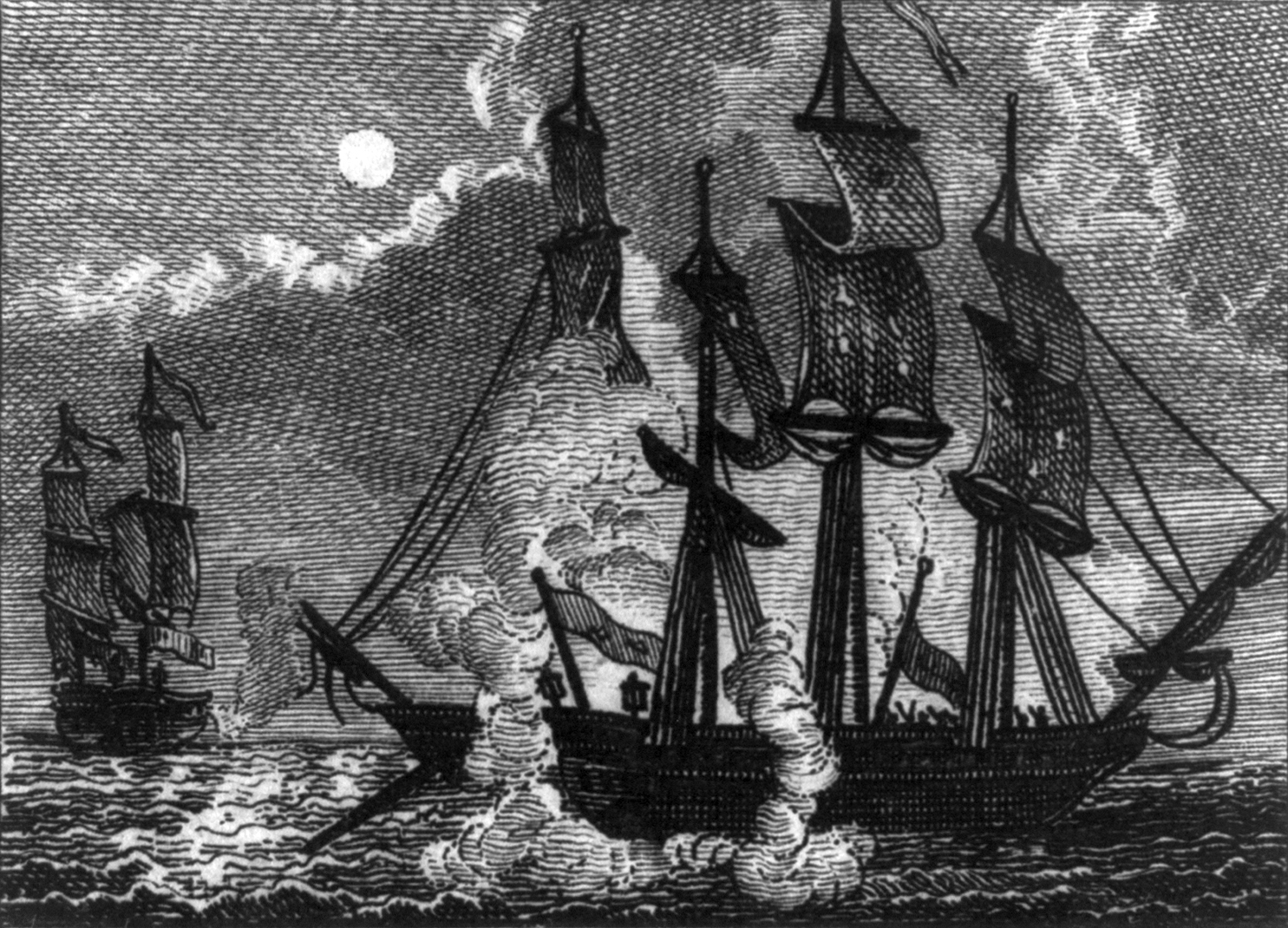 Battle between USS Bonhomme Richard and HMS Serapis Sept. 23, 1779 (Battle of Flamborough Head). Illus. in: Memoirs de Paul Jones, frontispiece.